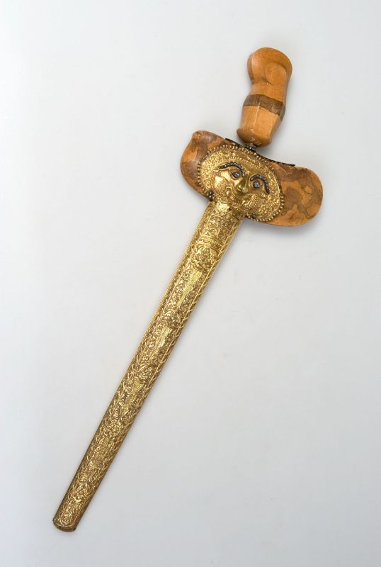 Kris with golden sheath, surmounted by a demon's head with diamond eyes